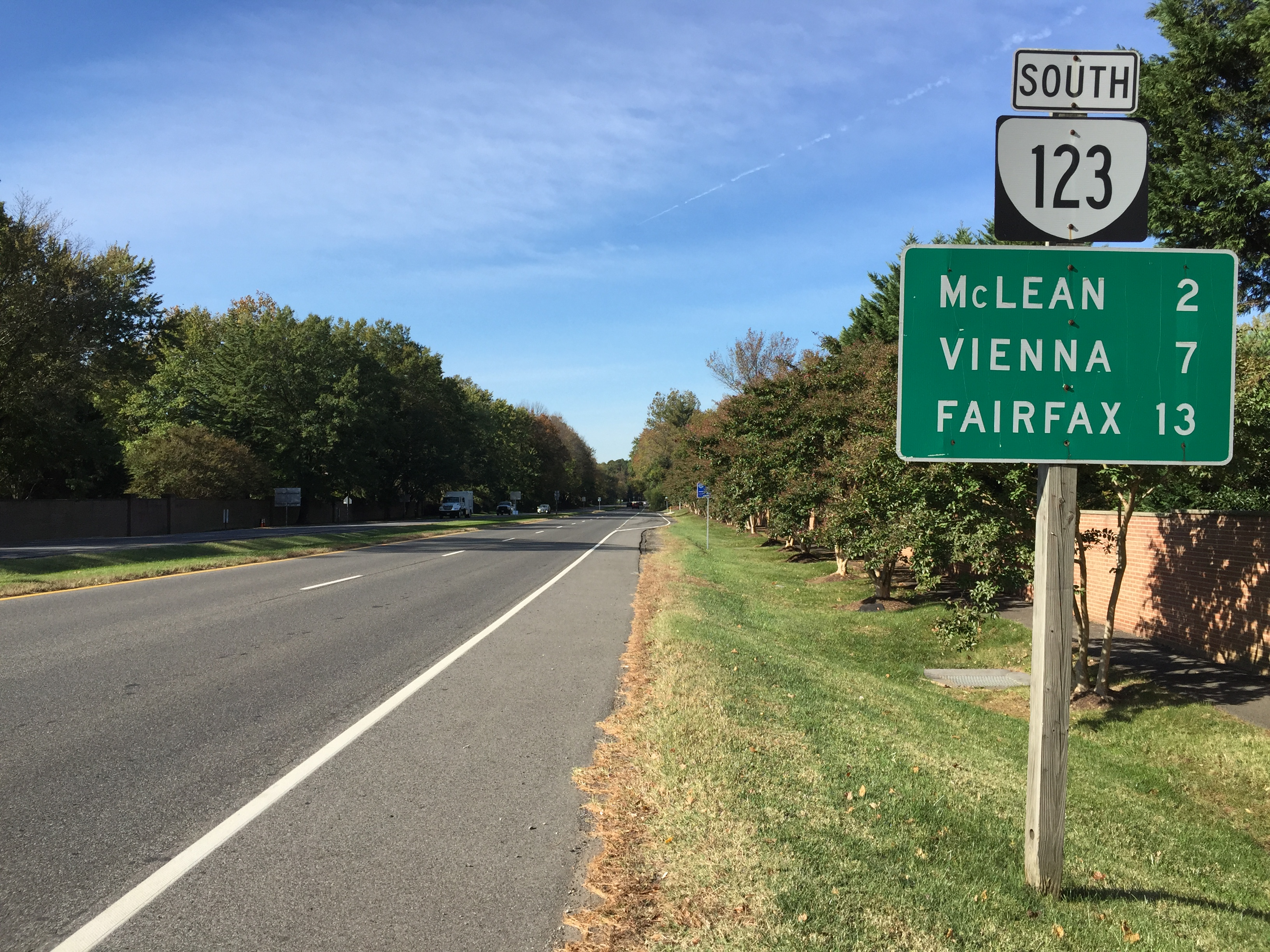 View south along Virginia State Route 123 (Dolley Madison Boulevard) at Virginia State Route 193 (Georgetown Pike) in McLean, Fairfax County, Virginia